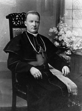 Saint Józef Bilczewski